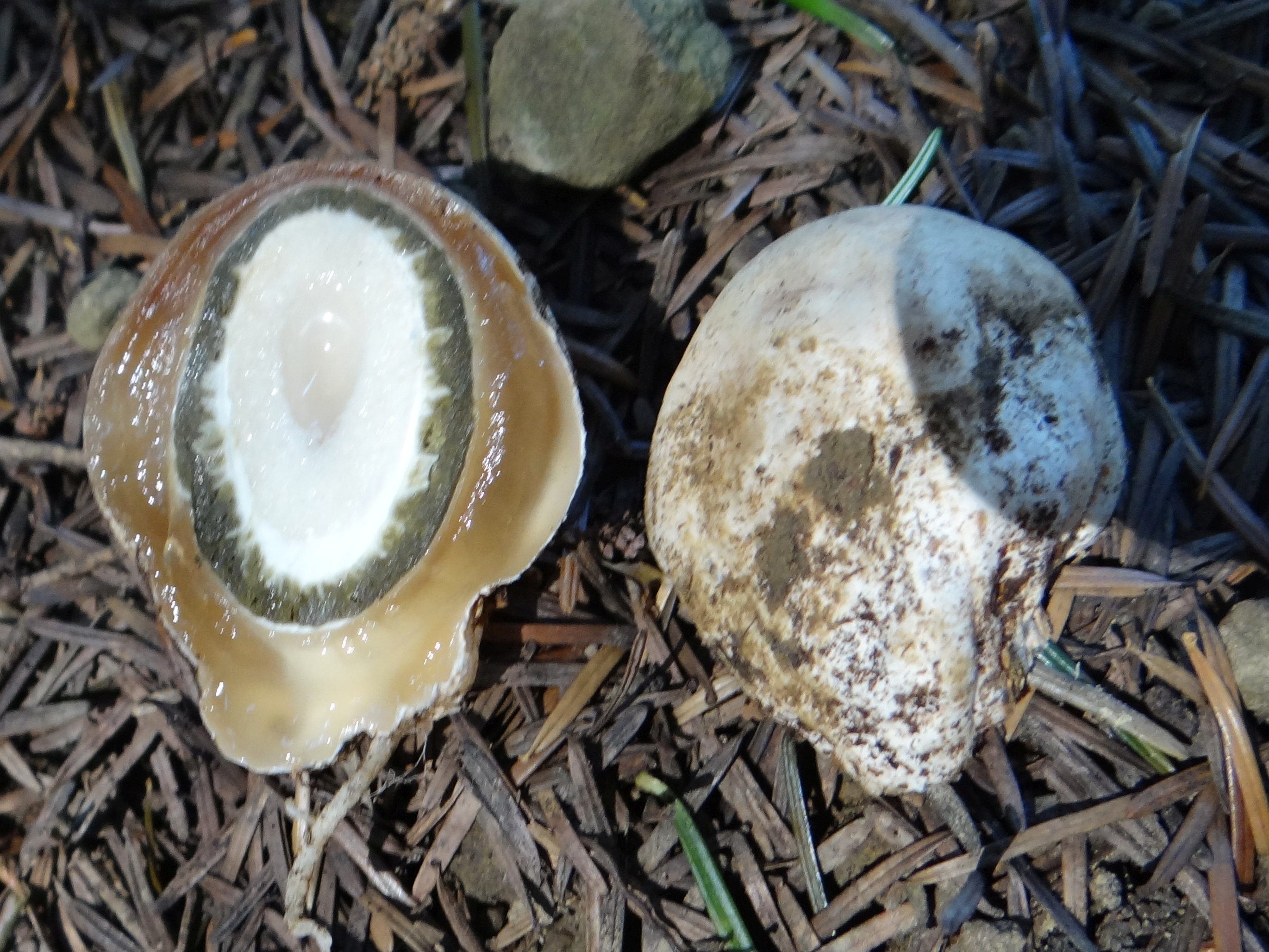 Phallus impudicus (location: Poland, Beskid Wyspowy, Łopień)